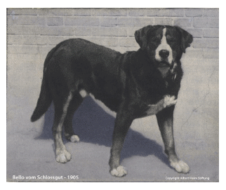 This is Bello v Scholssgut, SSB 3965, who was shown in 1908.